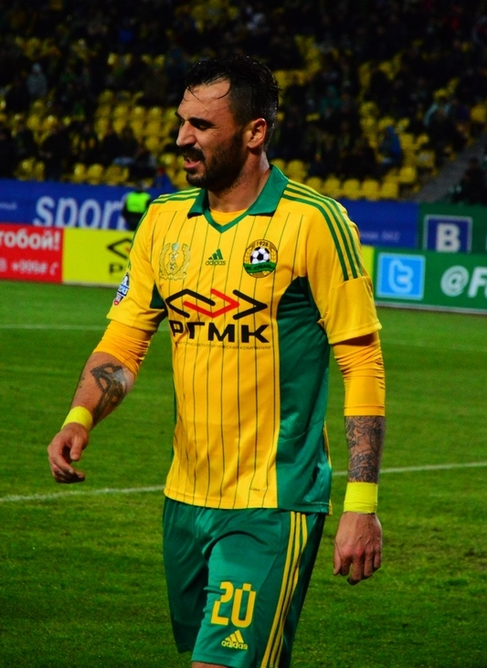 Hugo Almeida